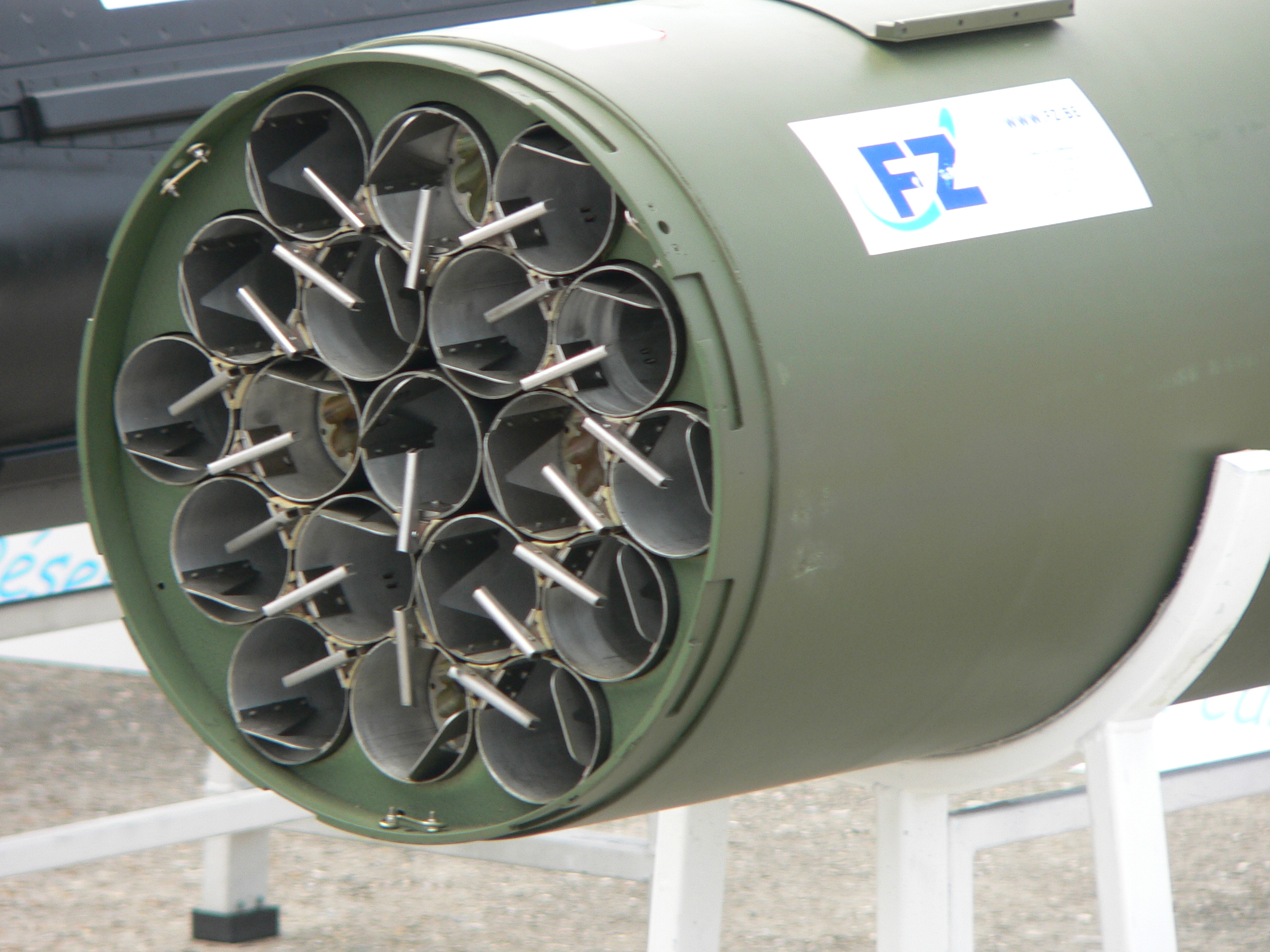 FZ-207 rocket launcher for helicopters (zoom on this)